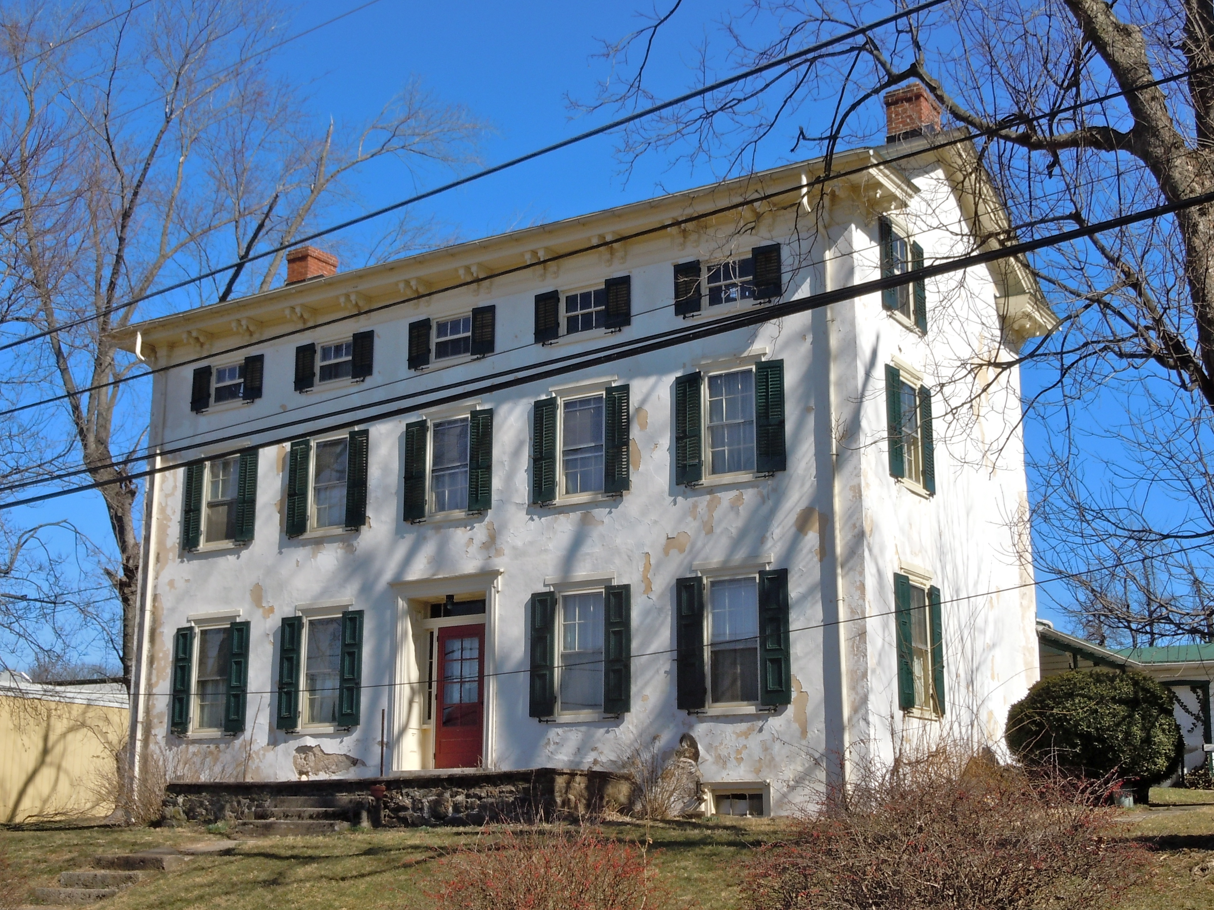 Robert Rooke House on the NRHP since September 19, 1973. North of Downingtown on Horseshoe Trail at Fellowship Road, West Vincent Township, Chester County, Pennsylvania